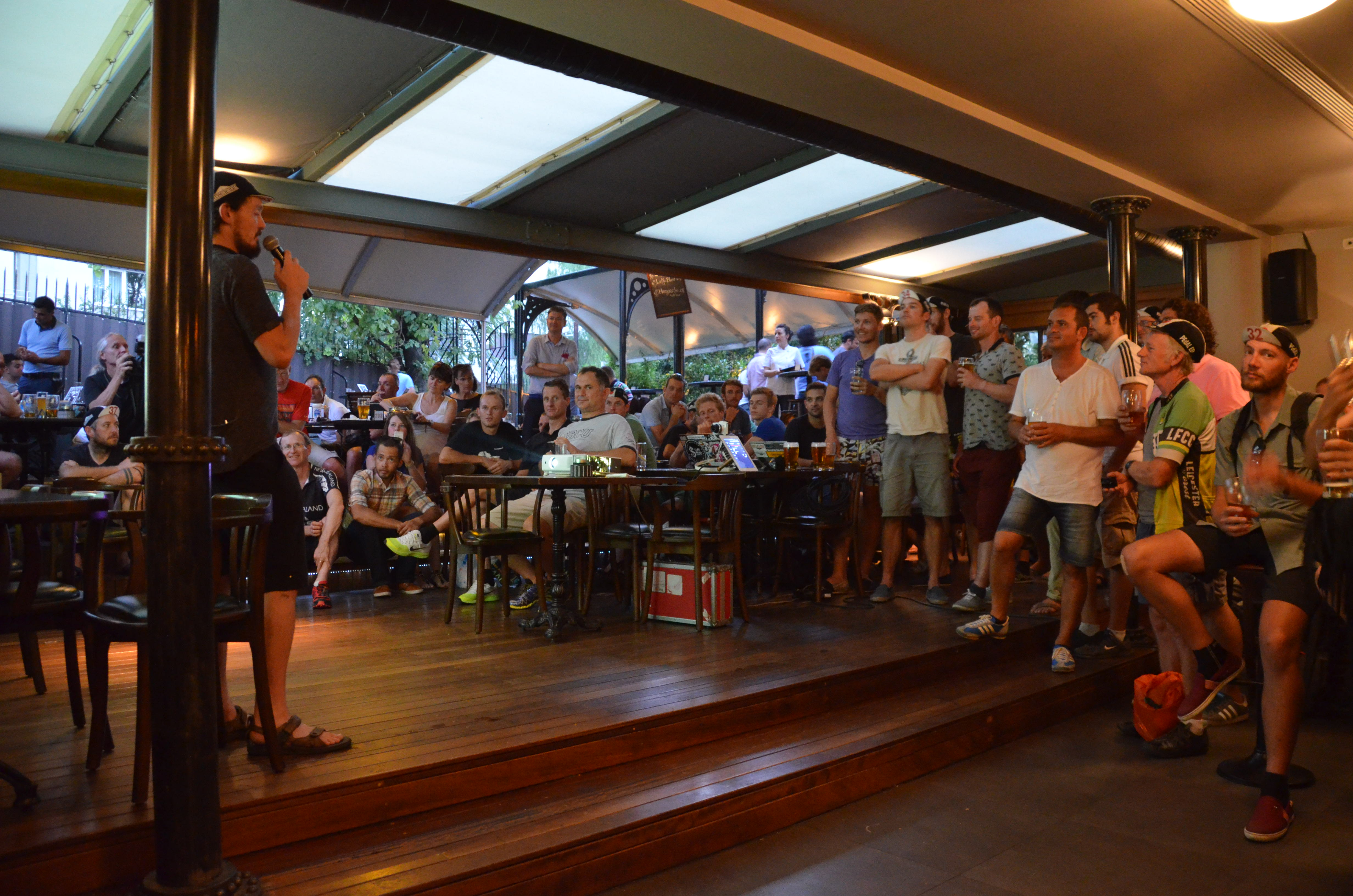 The finish party for the 2014 Transcontinental Race in Istanbul, Turkey